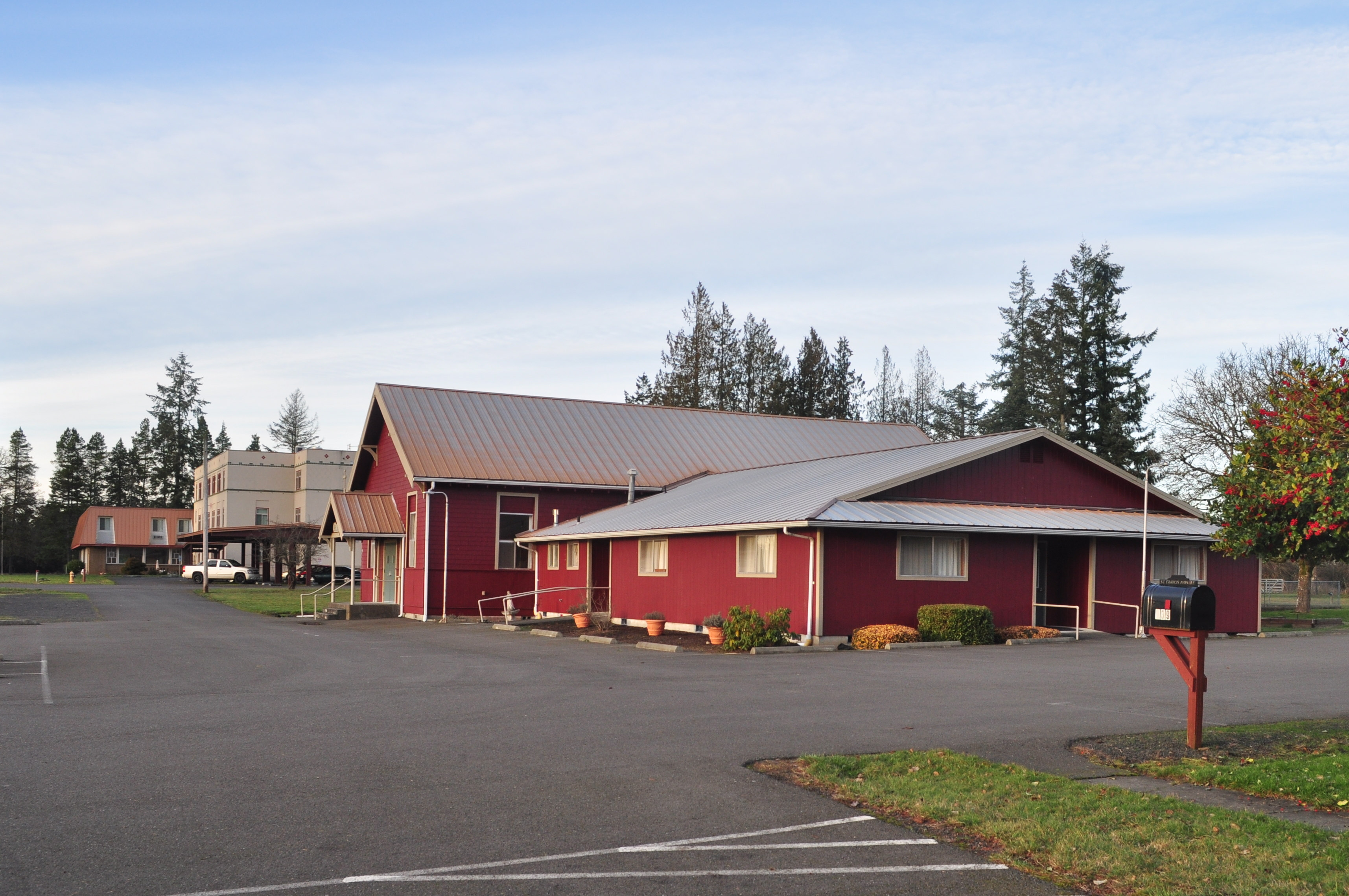 St. Joseph Hall and the former St. Mary's Academy (now property of the Cowlitz Indian Tribe and used mainly as senior housing), Saint Francis Xavier Mission in Lewis County, Washington, U.S., three miles north of Toledo, Washington, U.S.